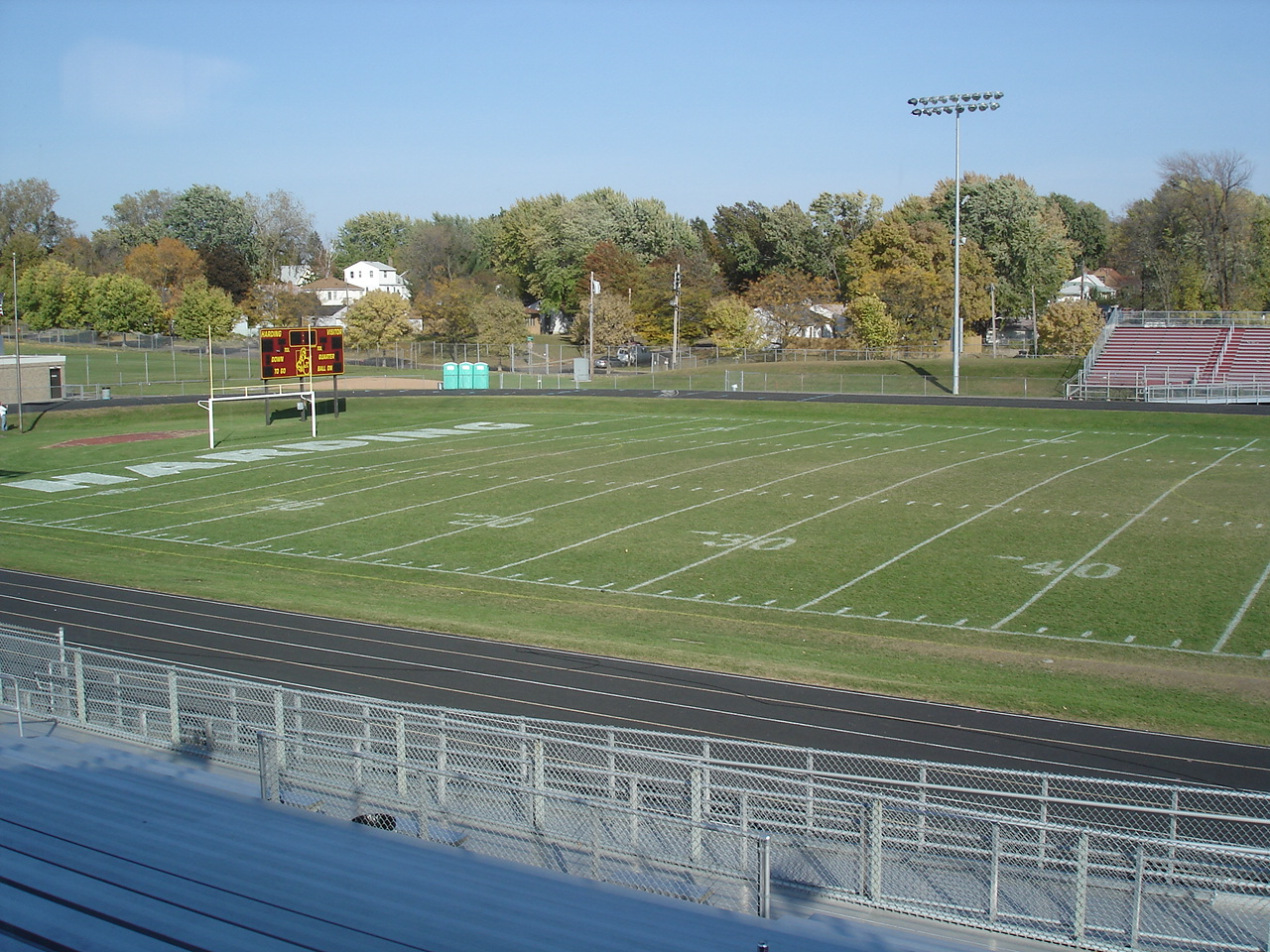 Snapshot of Bakken Field, home to Harding Senior High School in St. Paul, Minnesota